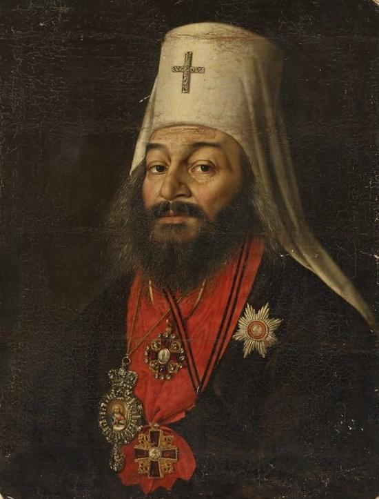 Metropolitan Varlaam, exarch of Georgia